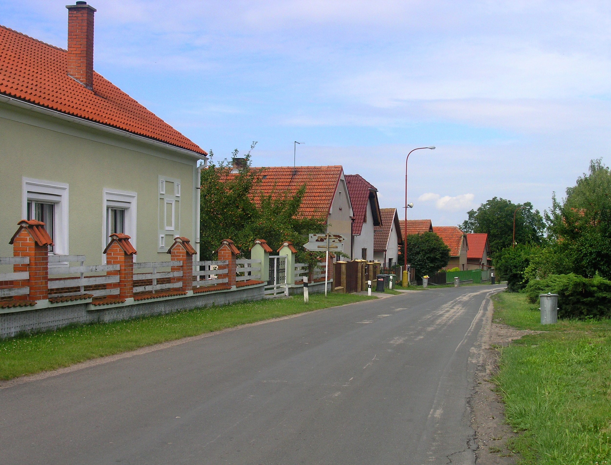 West part of Ohaře, Czech Republic